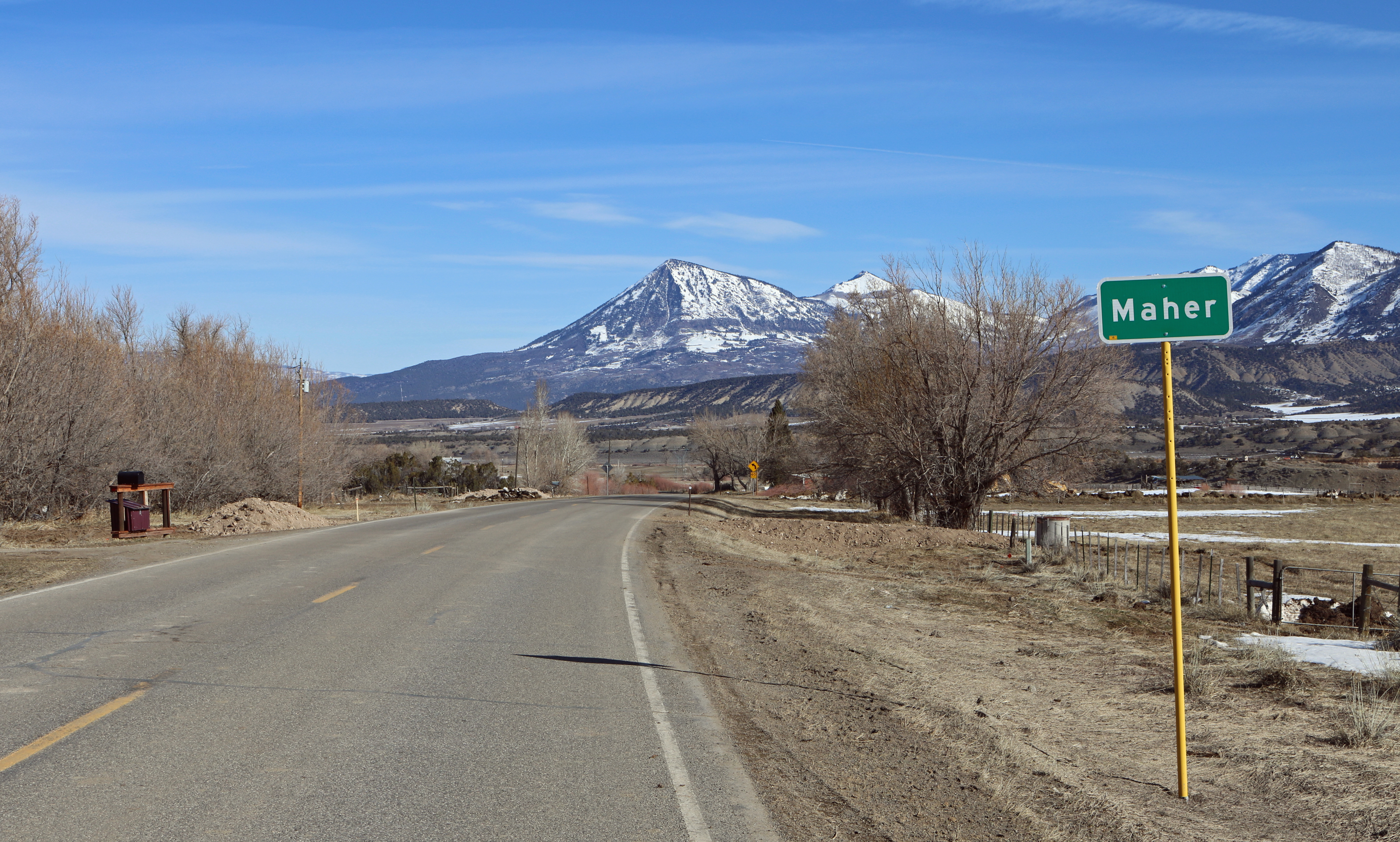 The community of Maher, Colorado, located on Colorado State Highway 92 in Montrose County. The mountain in the background is Mount Lamborn.